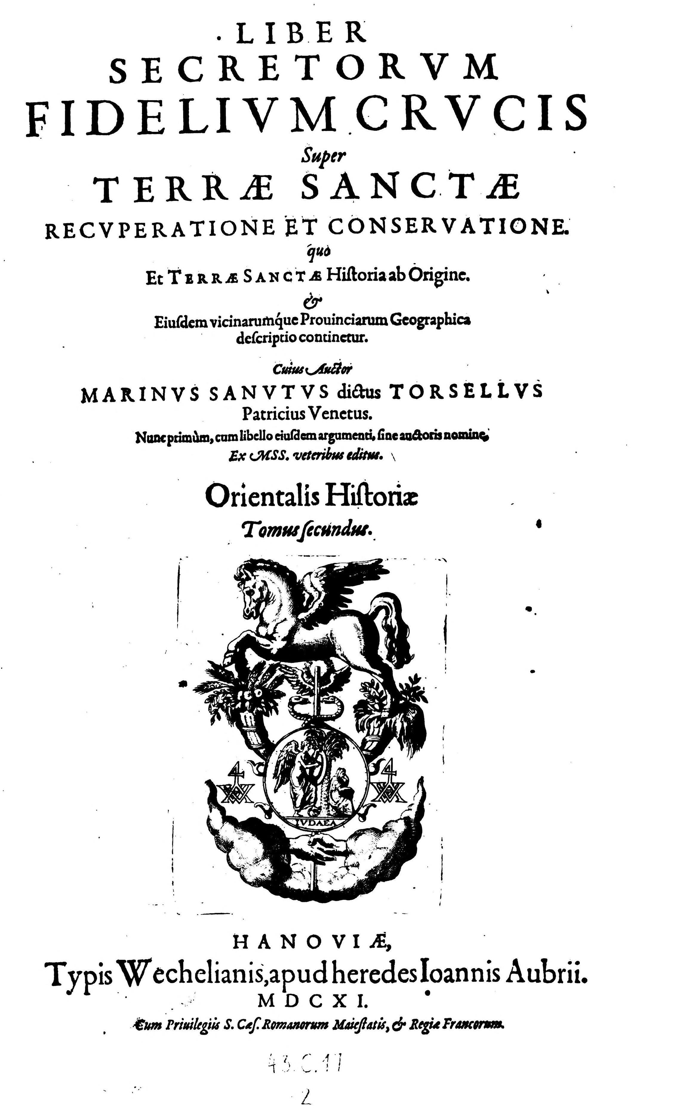 Liber Secretorum Fidelium Crucis 1611 printed edition